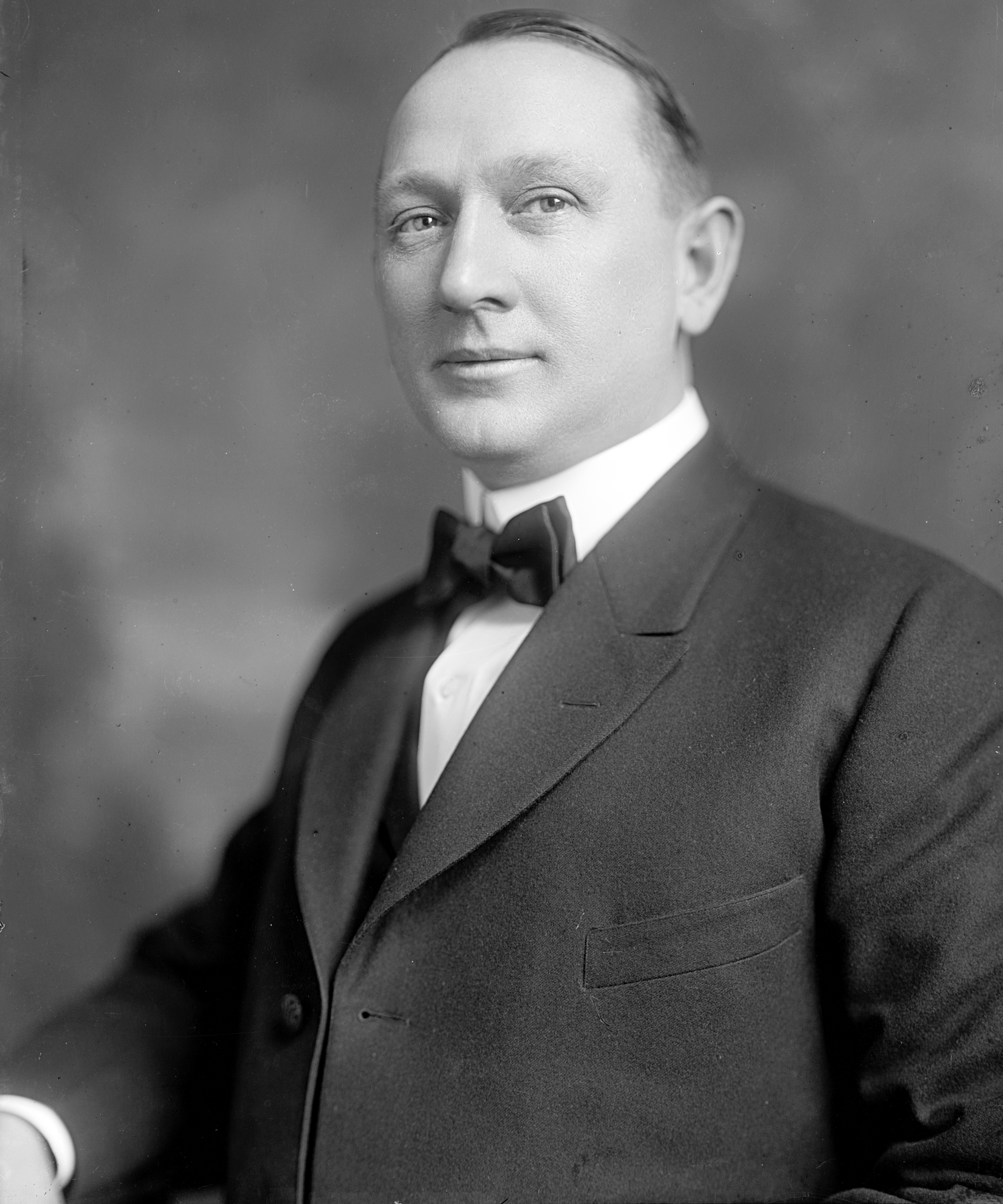 Peter Francis Tague, US Representative from Massachusetts